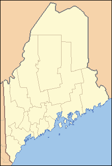 Locator Map of Maine, United States